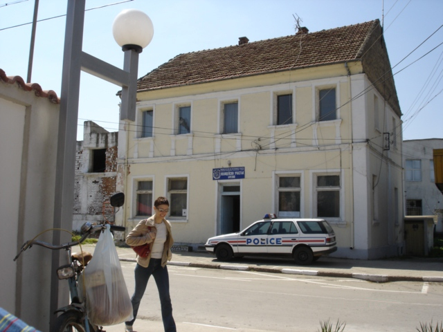 Police Substation Bregovo